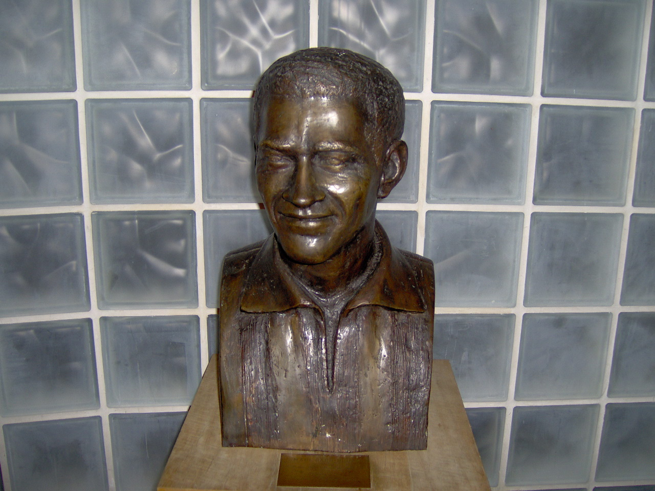 Photo of a statue of brazilian soccer player Garrincha in club Botafogo de Futebol e Regatas